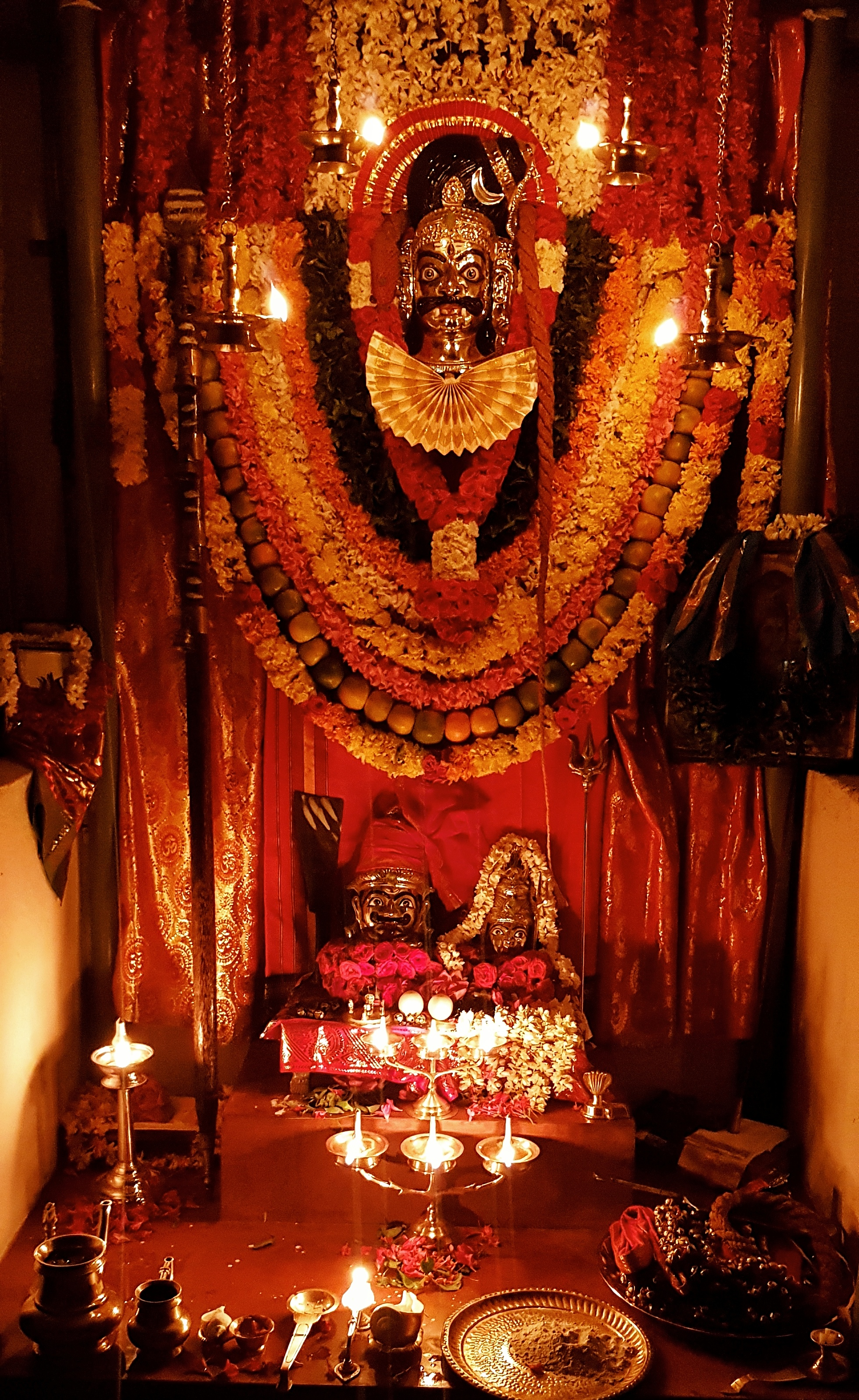 A fully decorated statue of Sudalai Madan with Issaki Amman. Sudalai Madaswamy otherwise known as Palavesakaaran, Pudhiyavan, Maasanamoorthy. , . This picture is from Trivandrum, Kerala.